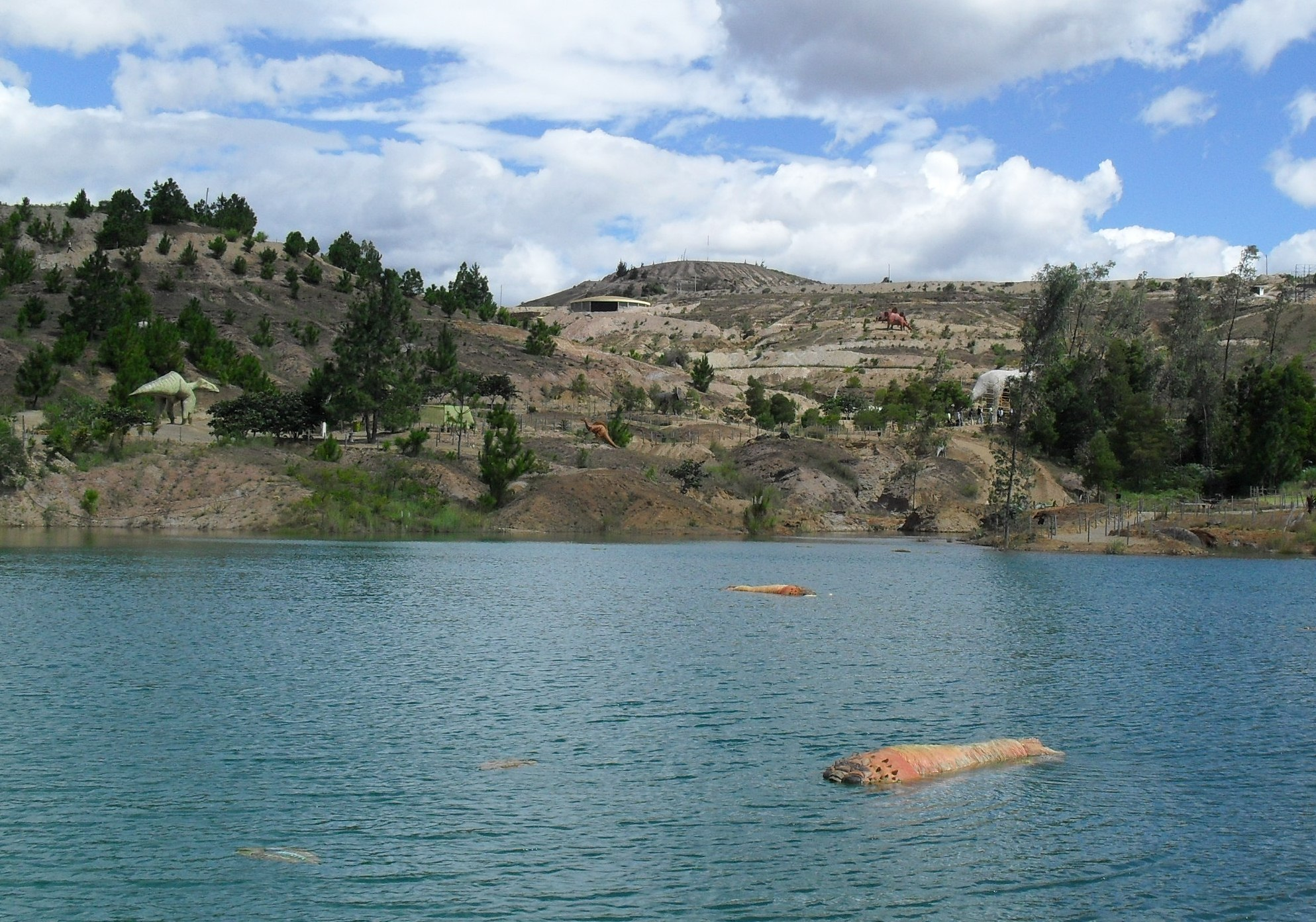 Panoramic Gondava theme park in the town of Sáchica, Boyacá, Colombia